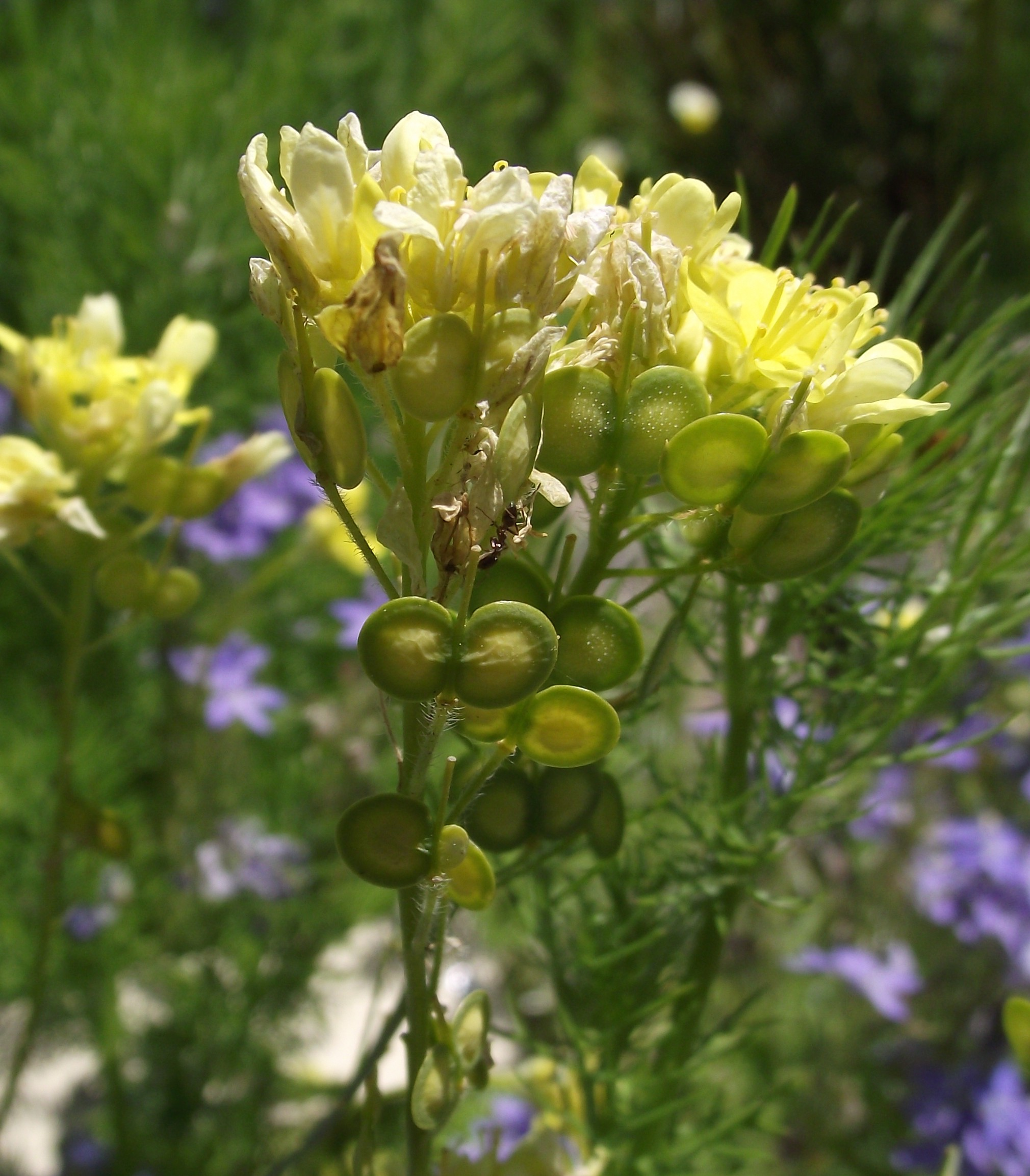 Biscutella valentina in the UC Botanical Garden, Berkeley, California, USA. Identified by sign.